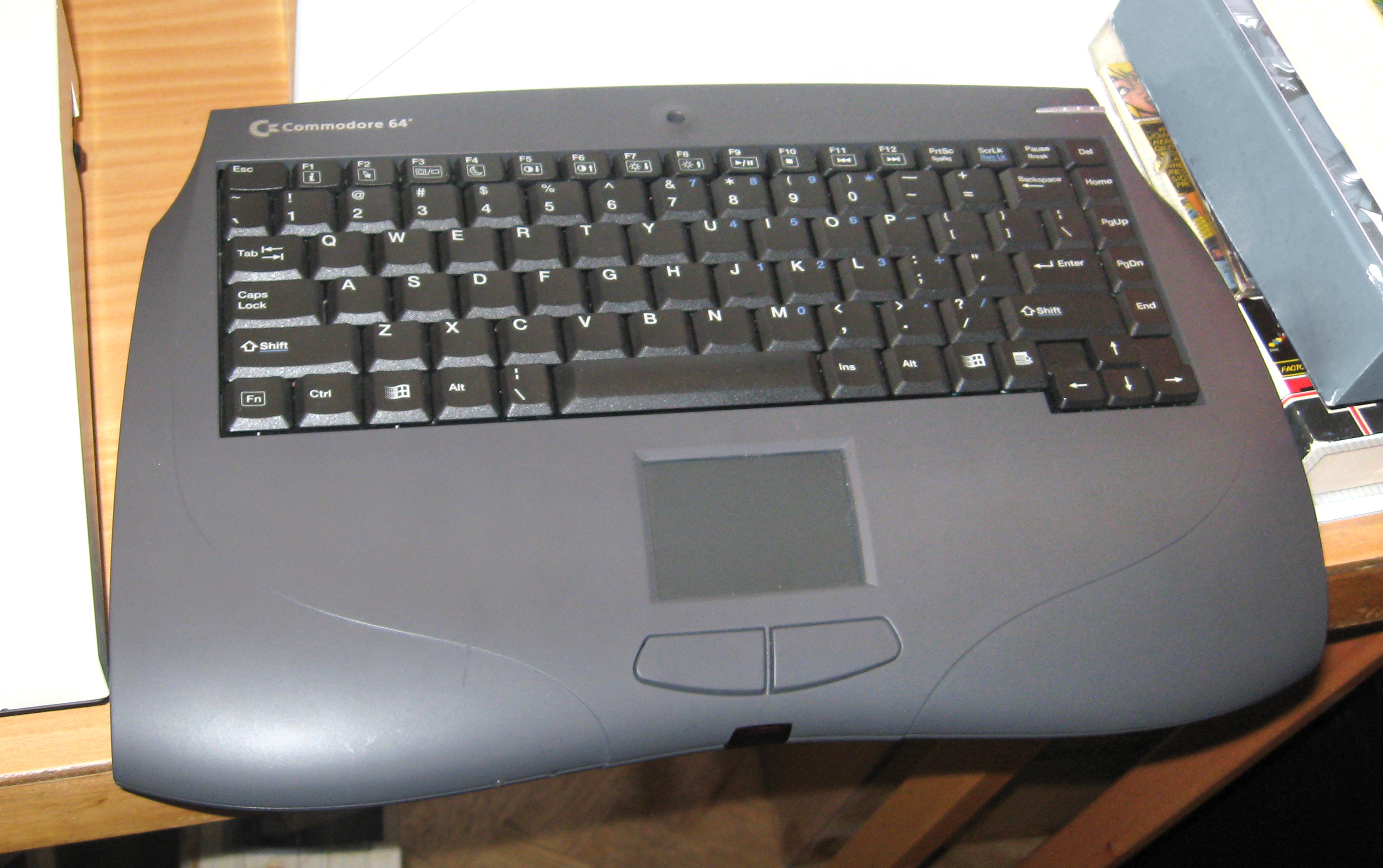 A Commodore 64-branded "Web.it Internet Computer" from the late-1990s. This is actually just a low-powered Windows-compatible PC, and not directly compatible with the original Commodore 64. (Photo taken at Retro Gatering, Stockholm, 27 Sep 2008.)